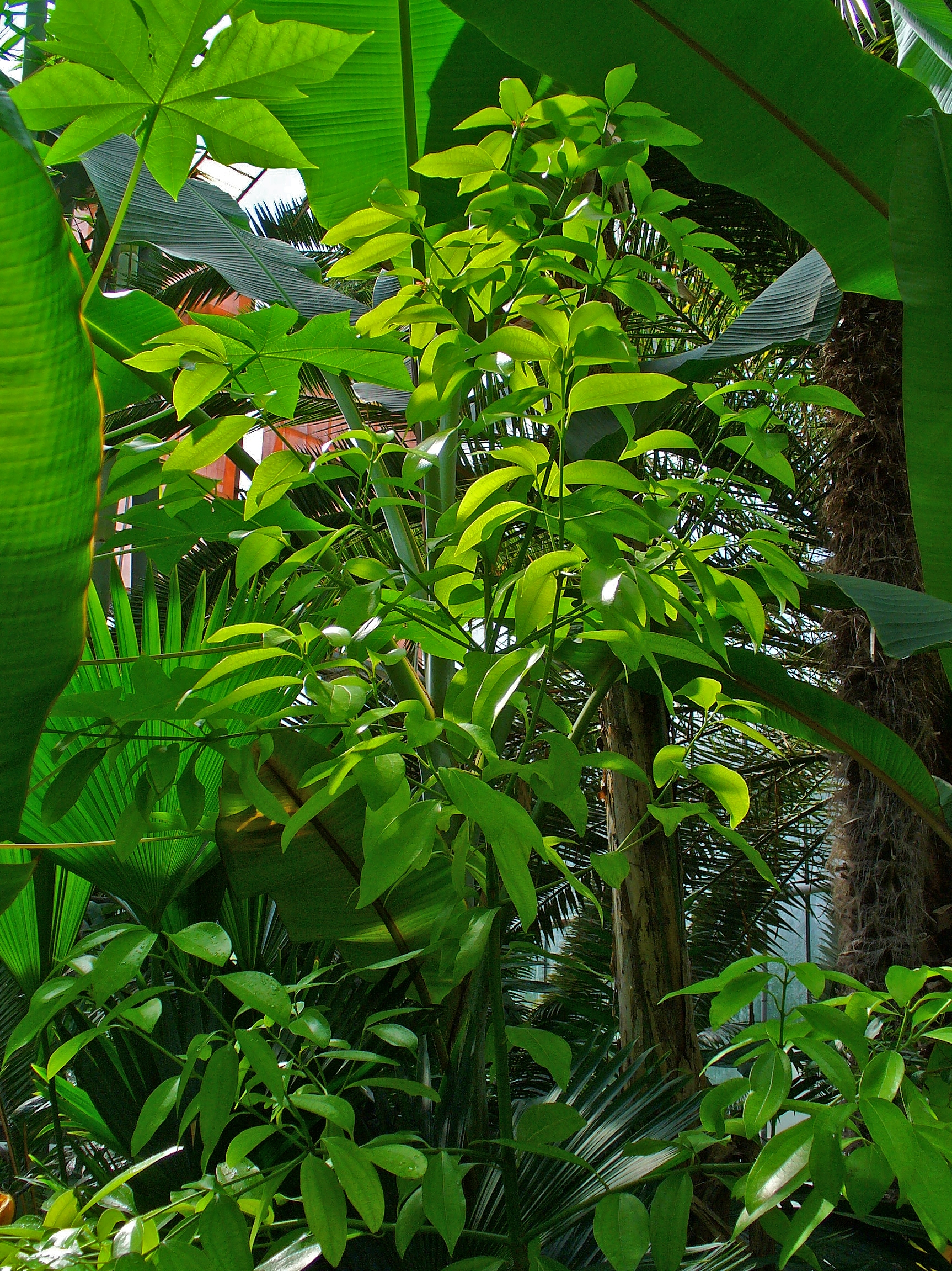 Cinnamomum verum, Lauraceae, Cinnamon, habitus; Botanical Garden KIT, Karlsruhe, Germany. The bark is used in homeopathy as remedy: Cinnamomum (Cinna.)